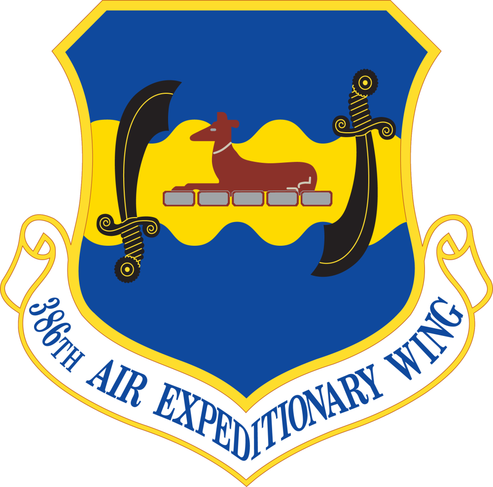 Emblem of the 386th Air Expeditionary Wing, a wing of the United States Air Force. Significance: Ultramarine blue and Air Force yellow are the Air Force colors. Blue alludes to the sky, the primary theater of Air Force operations. Yellow refers to the sun and the excellence required of Air Force personnel. The black scimitars represent the strength and might of combat air power in Southwest Asia. The brown Whippet symbolizes the original group’s mascot Marauder and by extension the first assigned aircraft, the B-26 Marauder. The flat silver stones upon which the Whippet rests signifies the stepping stones of the original flying squadrons to the present day Wing, and show the untiring devotion to duty, extra ordinary skills, courage, and commitment.